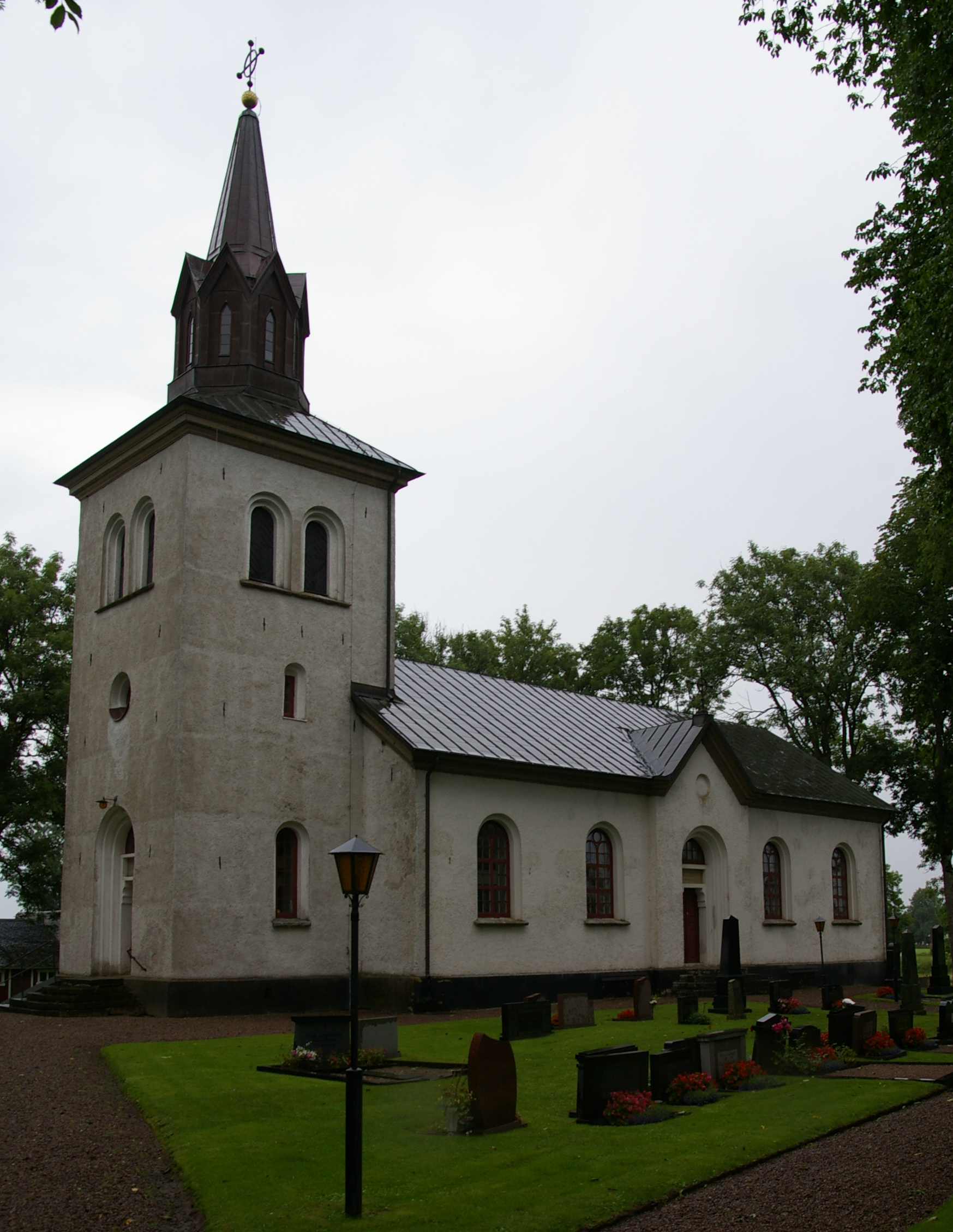 Brismene kyrka (Swedish:Church of Brismene) in Västergötland, Sweden.